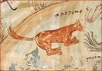 Fresco in St. Nicholas Church, Krepeni